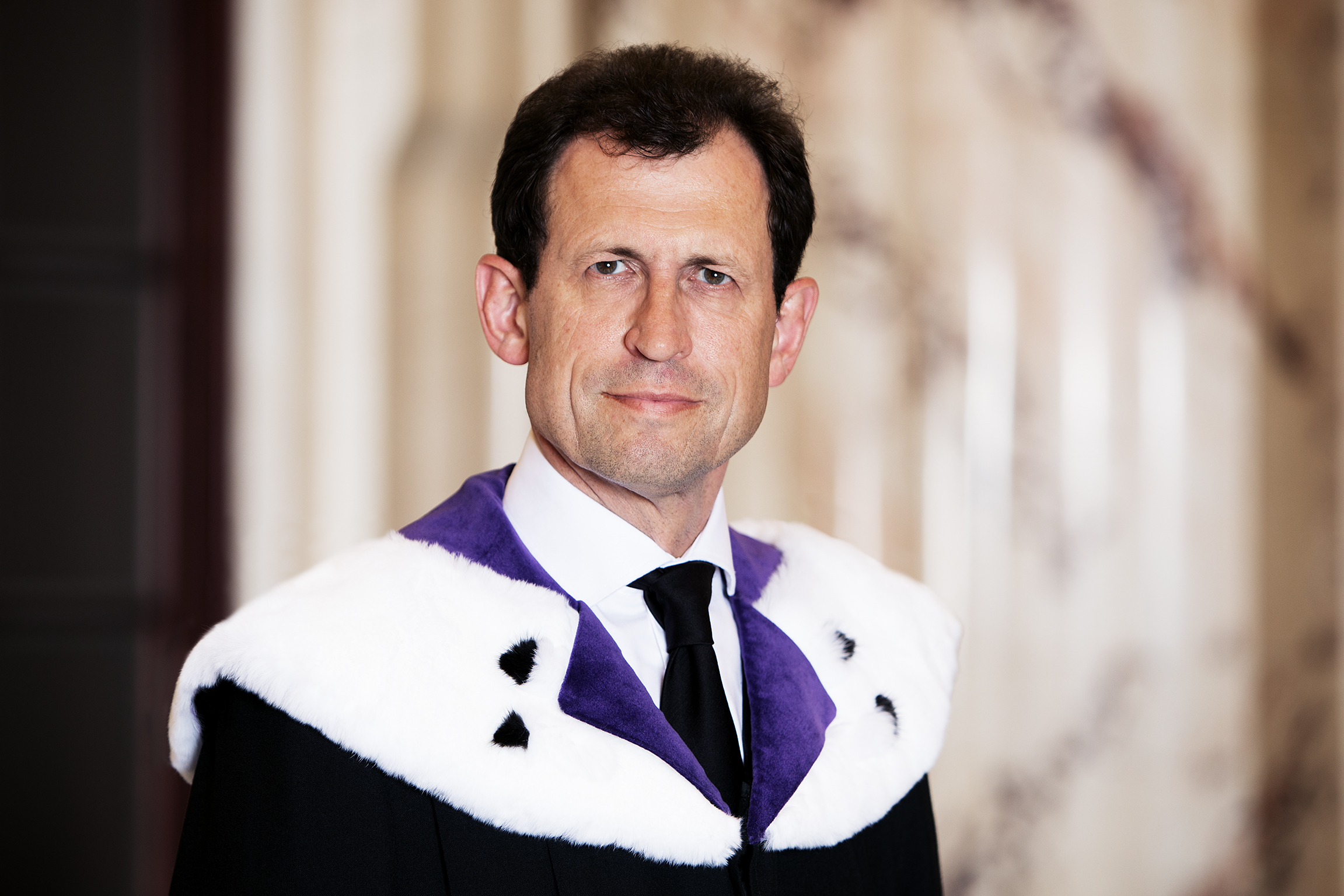 DDr. Christoph Grabenwarter, Präsident des Verfassungsgerichtshofes, Juni 2020, Freyung 8, 1010 Wien